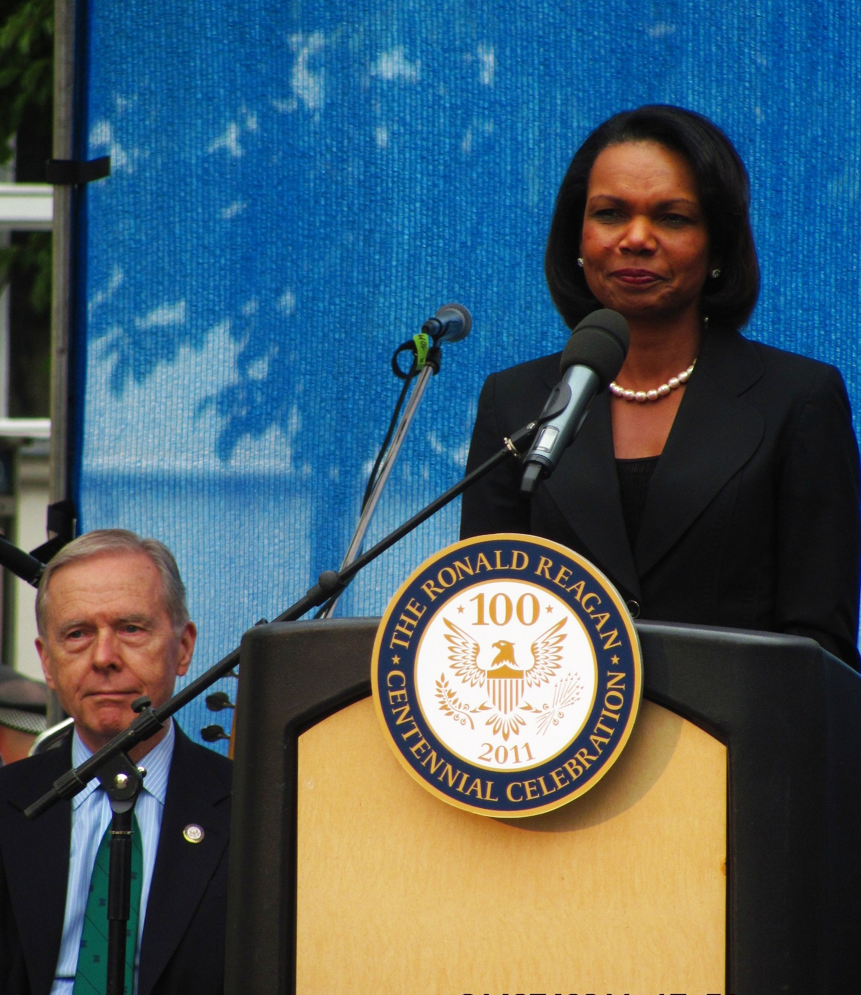 Condoleezza Rice, Fmr.Secretary of State and Pete Wilson, Fmr.Governor of California and U.S.Senator (Rep.) at Ronald Reagan Centennial Celebration in Prague (2011)